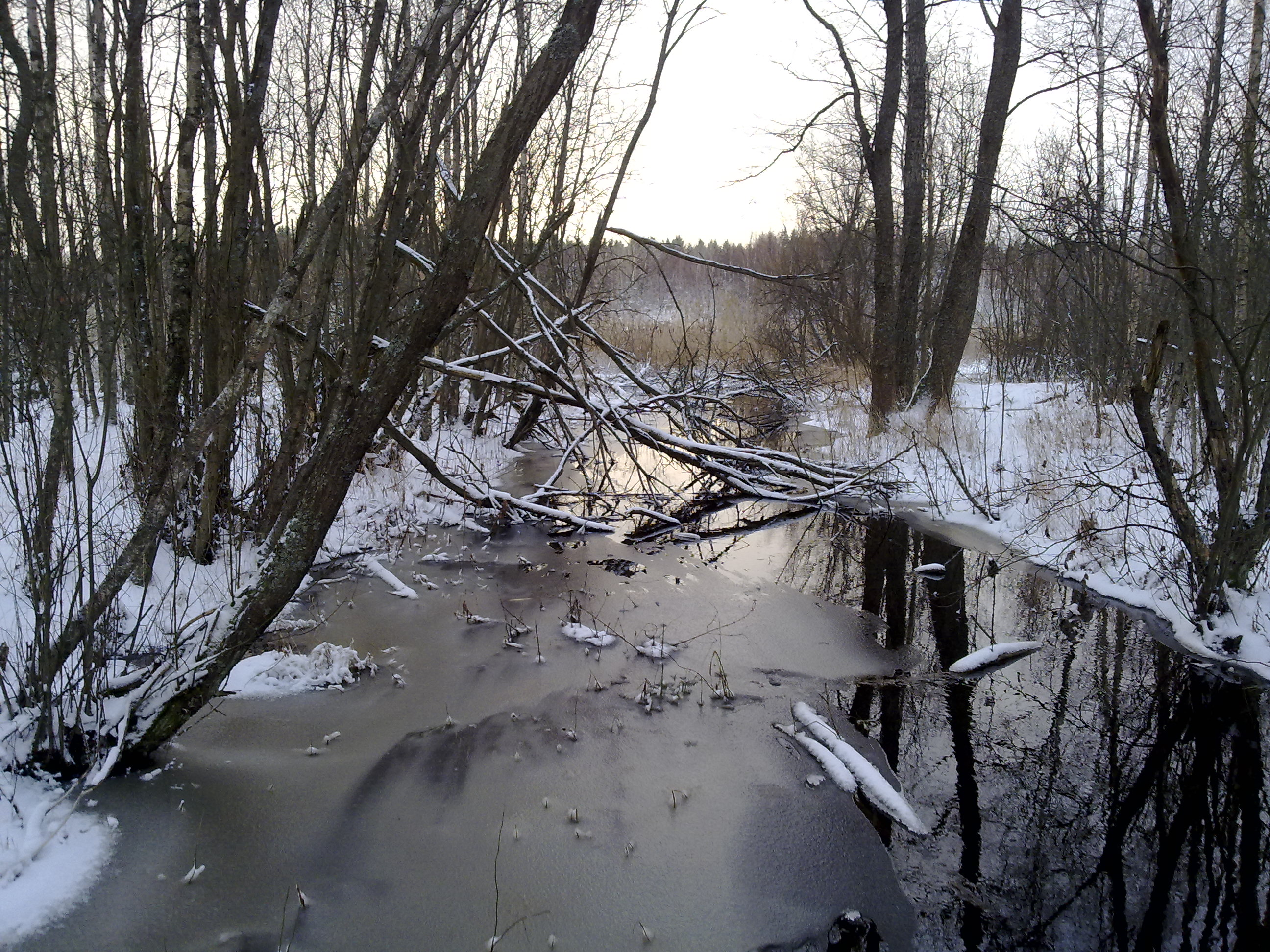 Stream in Enäjärvi, Pori, Finland.